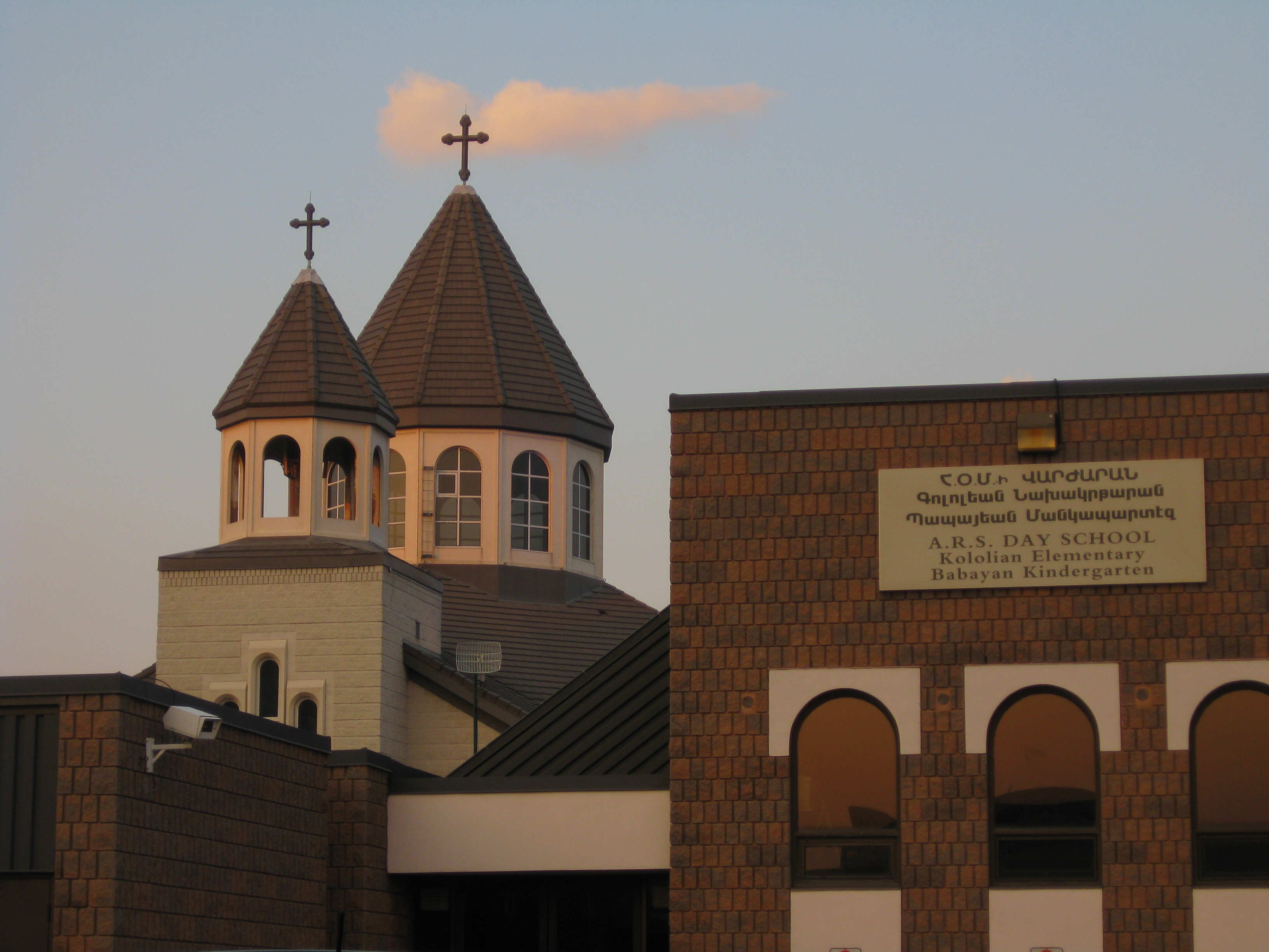 A.R.S. Armenian School Building 1